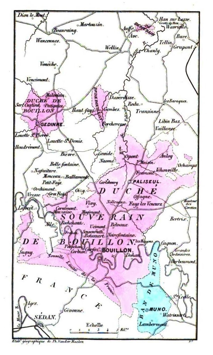 Map showing (in purple) the boundaries of the former Duchy of Bouillon. The area in aqua was a fief that had once belonged to the duchy. This discolored map was included in the book titled Histoire de la ville et du duché de Bouillon, by M. J. F. Ozeray (Brussels, 2nd edition, 1864).